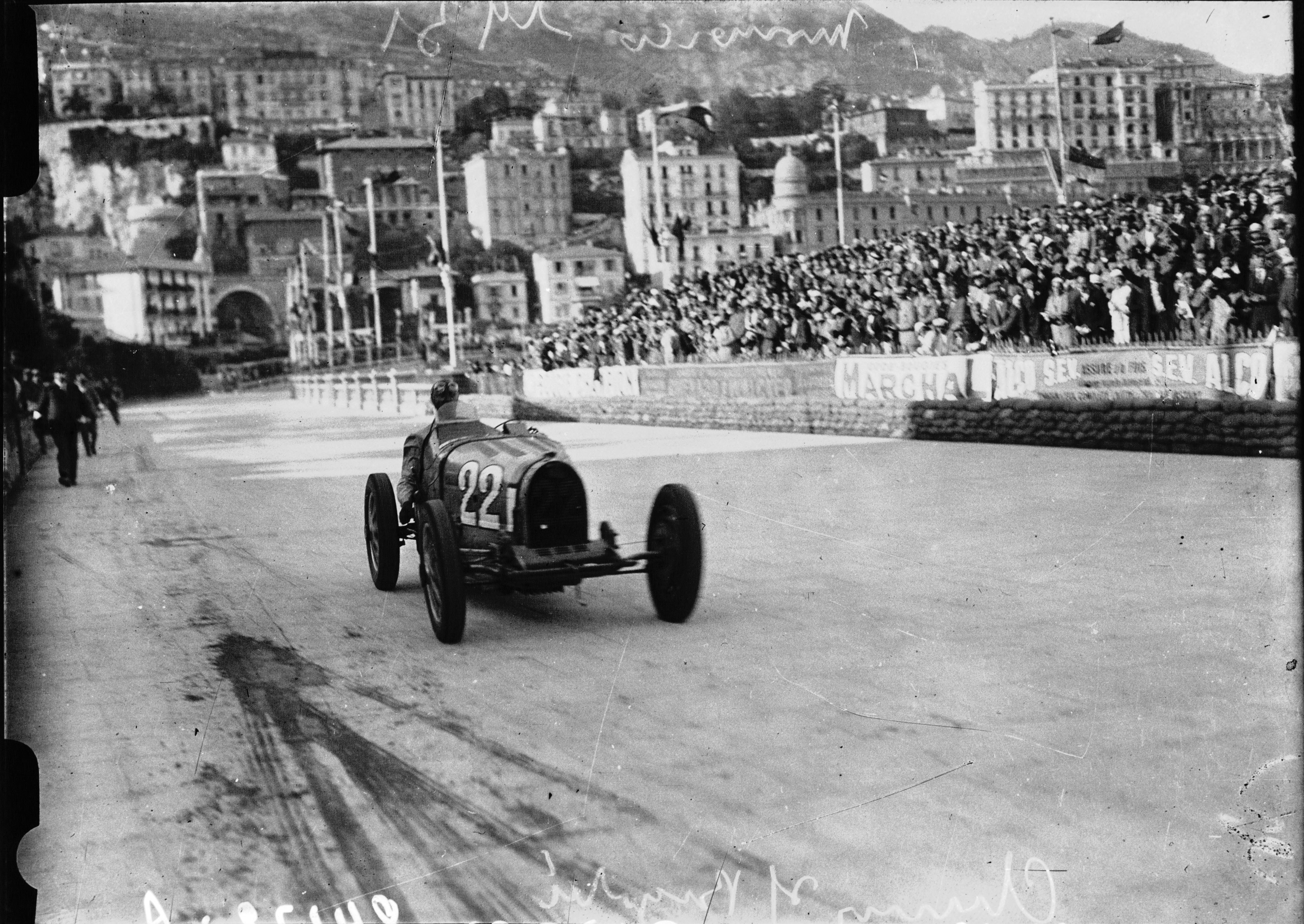 Louis Chiron at the 1931 Monaco Grand Prix